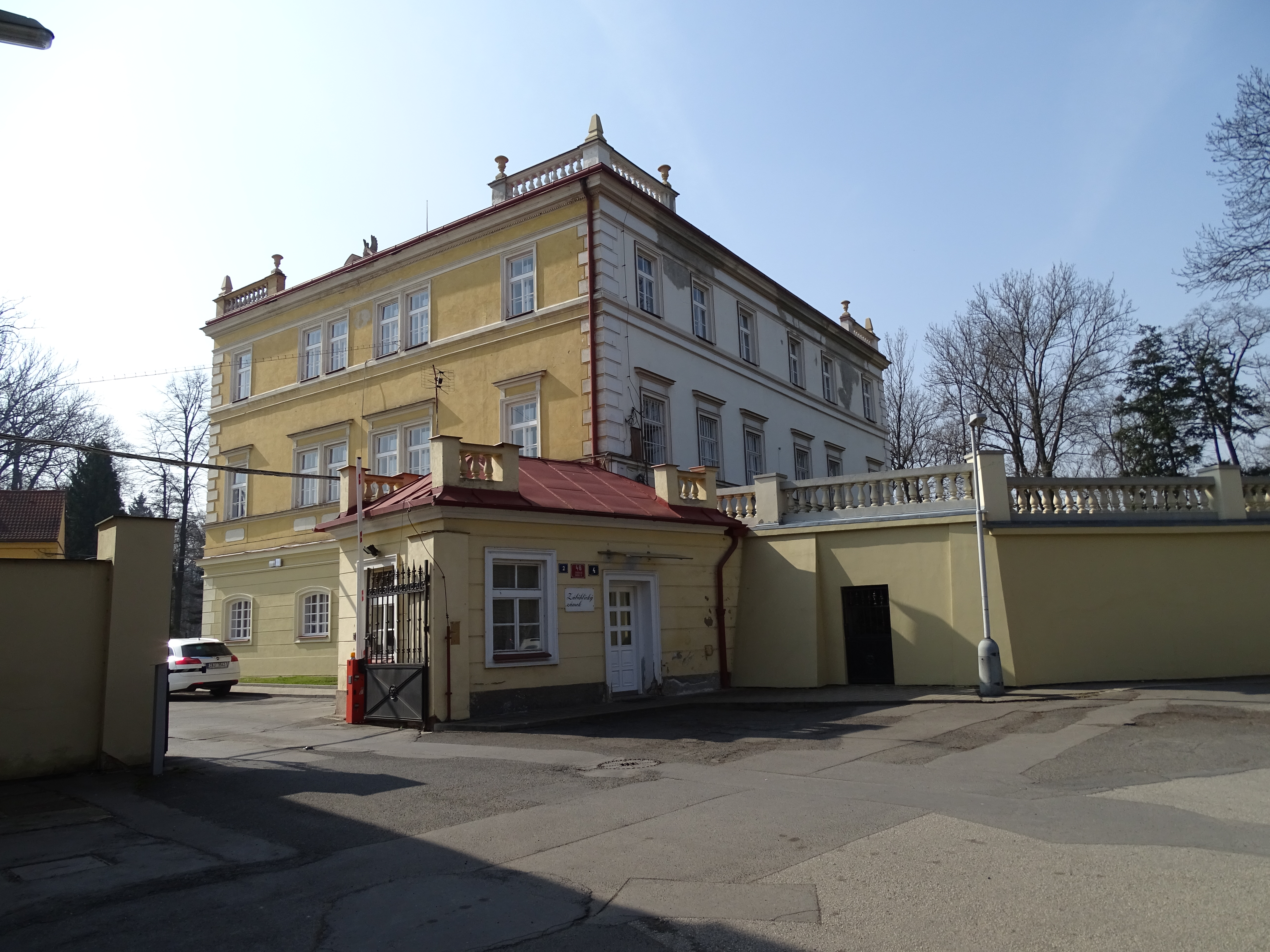 Prague-Záběhlice, Czech Republic. Za potokem street, Záběhlice Castle.